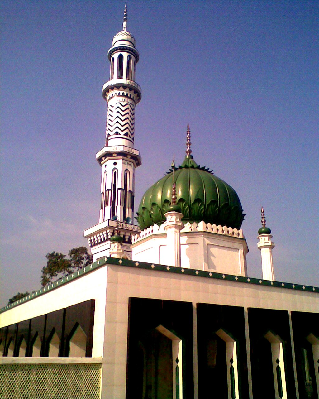 — Free Art license (info)